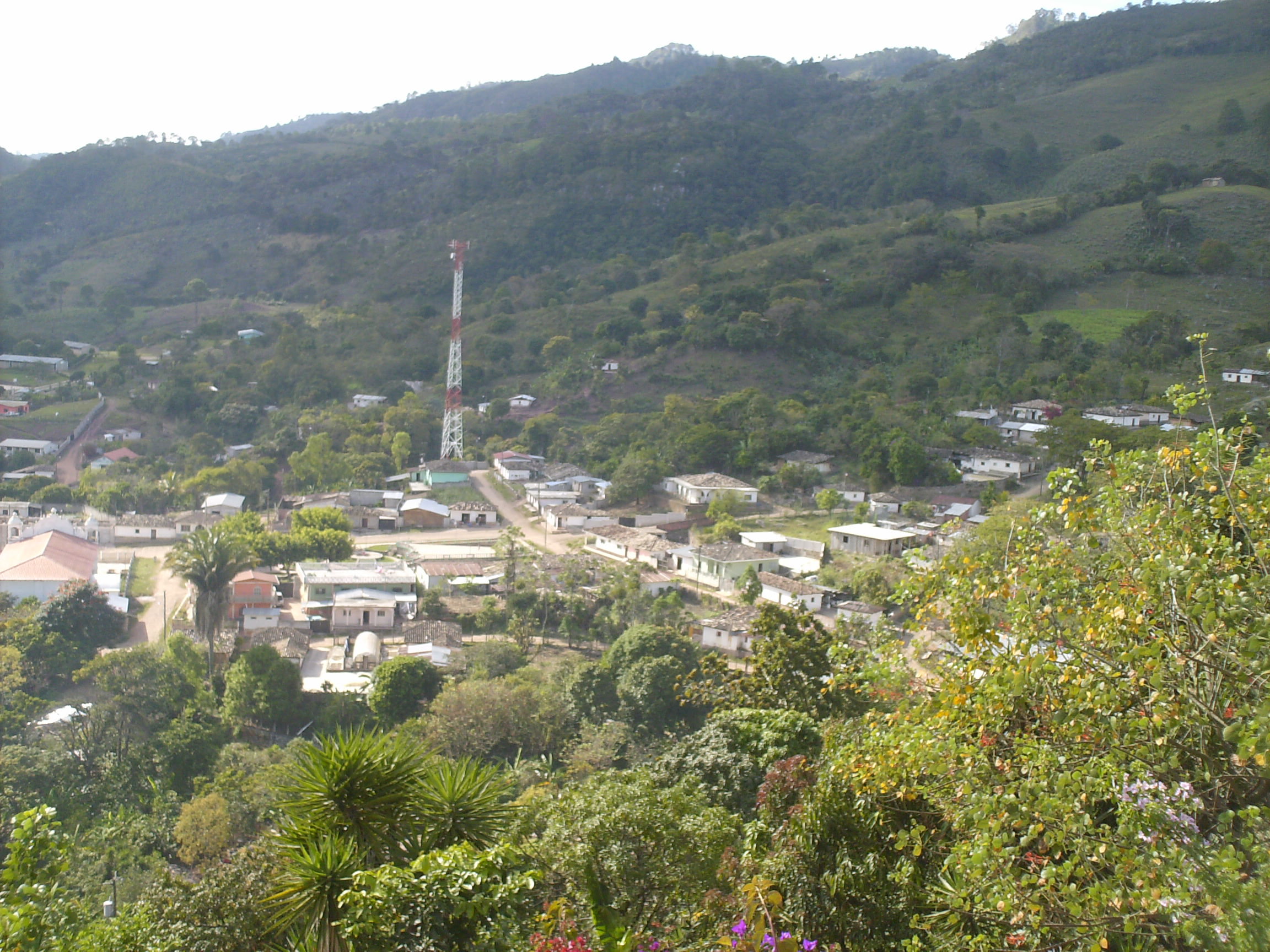 La Unión, municipality in the Honduran department of Lempira.